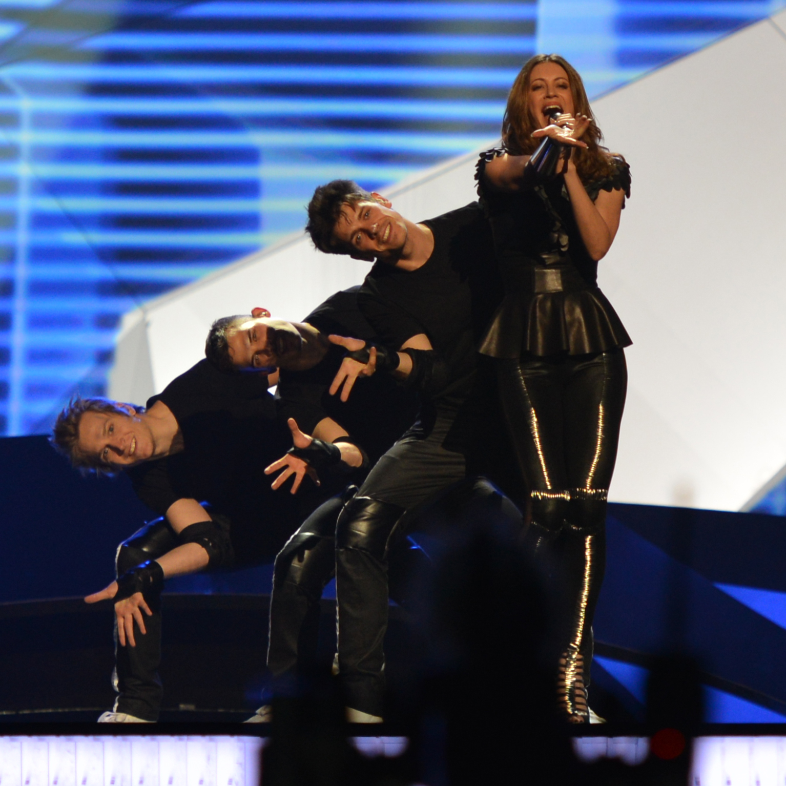 Hannah representing Slovenia with the song "Straight into Love" during the first dress rehearsal of the first semi final of the Eurovision Song Contest 2013 in Malmö. (Help translate this text)